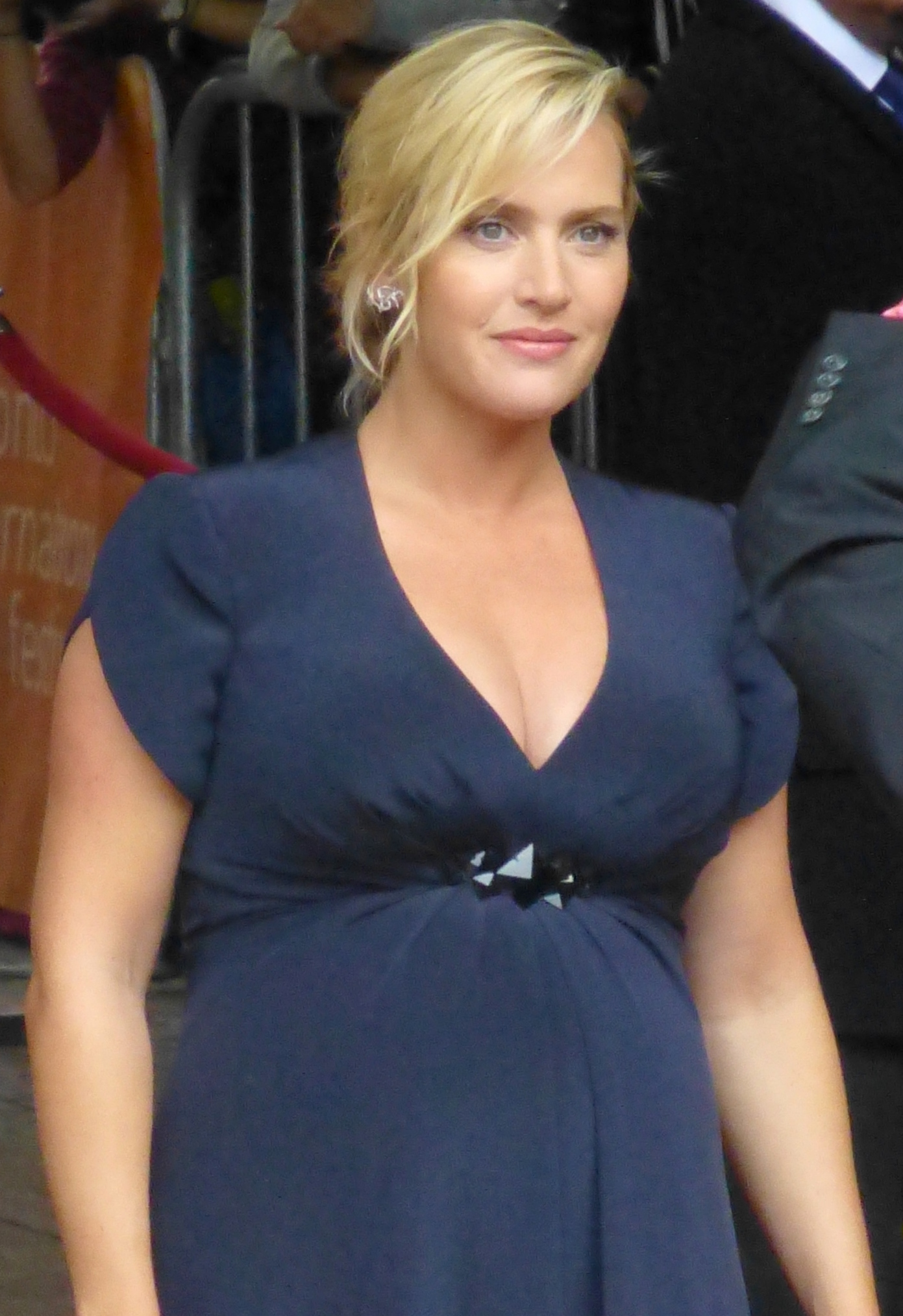 Kate Winslet at the premiere of Labor Day, Toronto Film Festival 2013